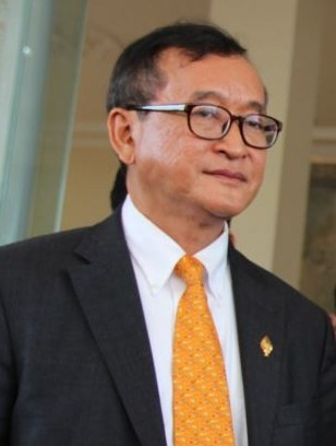 Cambodian Prime Minister Hun Sen (R) talks to the press with Sam Rainsy (L) president of the Cambodia National Rescue Party (CNRP), after the National Assembly vote to select the members of National Election Committee in Phnom Penh, Cambodia on April 9th, 2015.